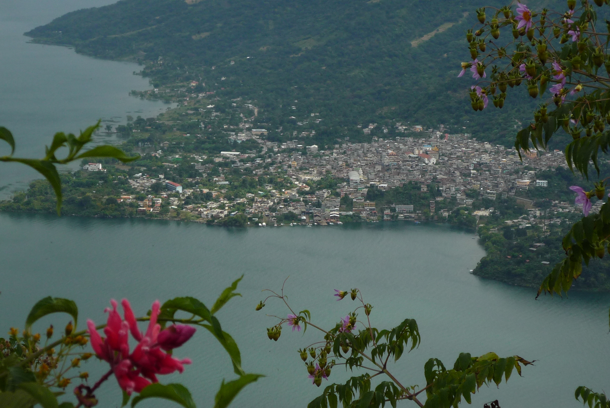 San Pedro La Laguan, Lago Atitlán, Guatemala